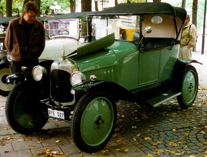 Citroen Type A Torpedo 1919